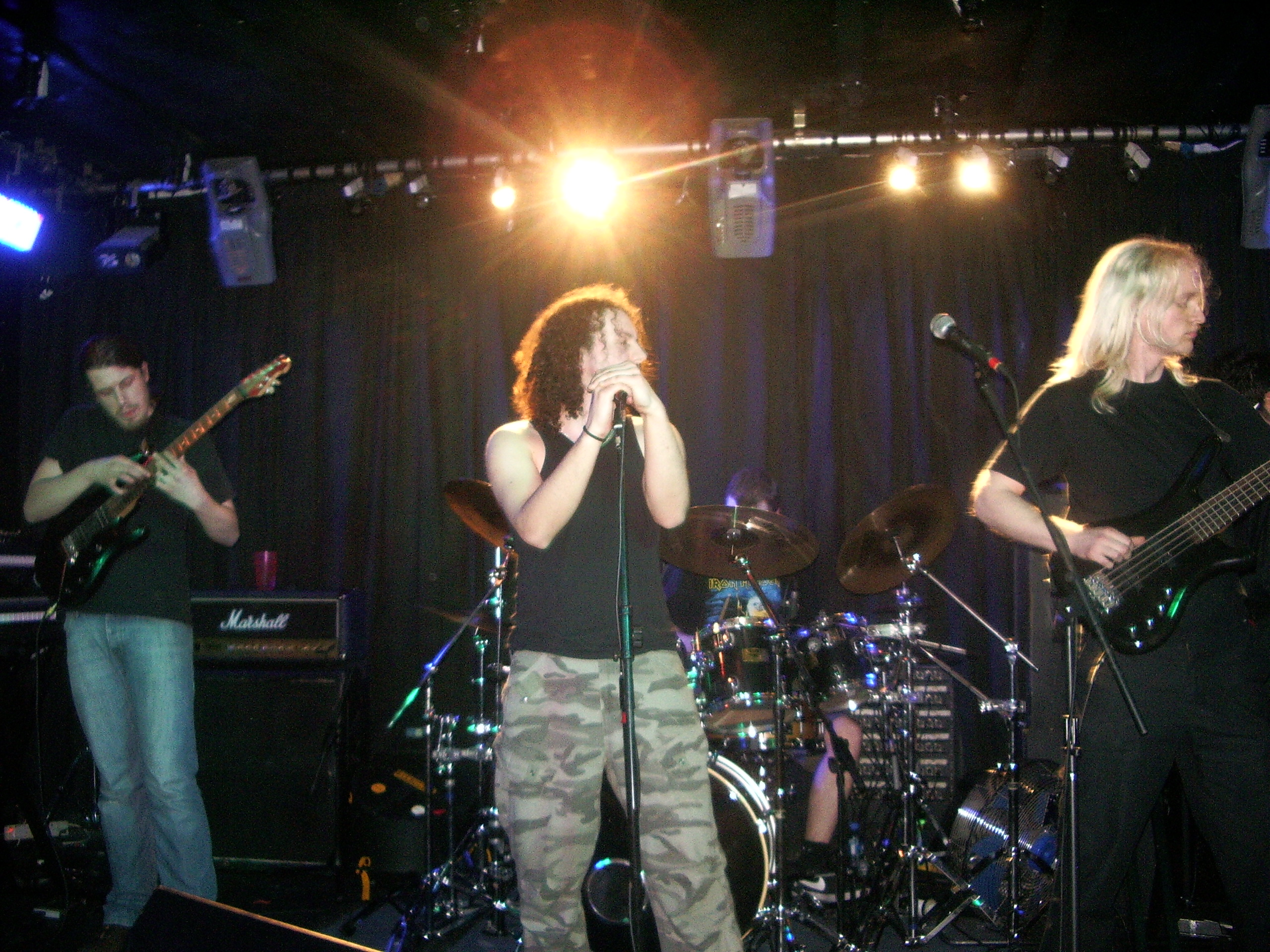 Haken performing at The Peel in Kingston on 21st March 2009